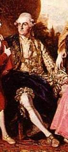 4th Duke of Marlborough